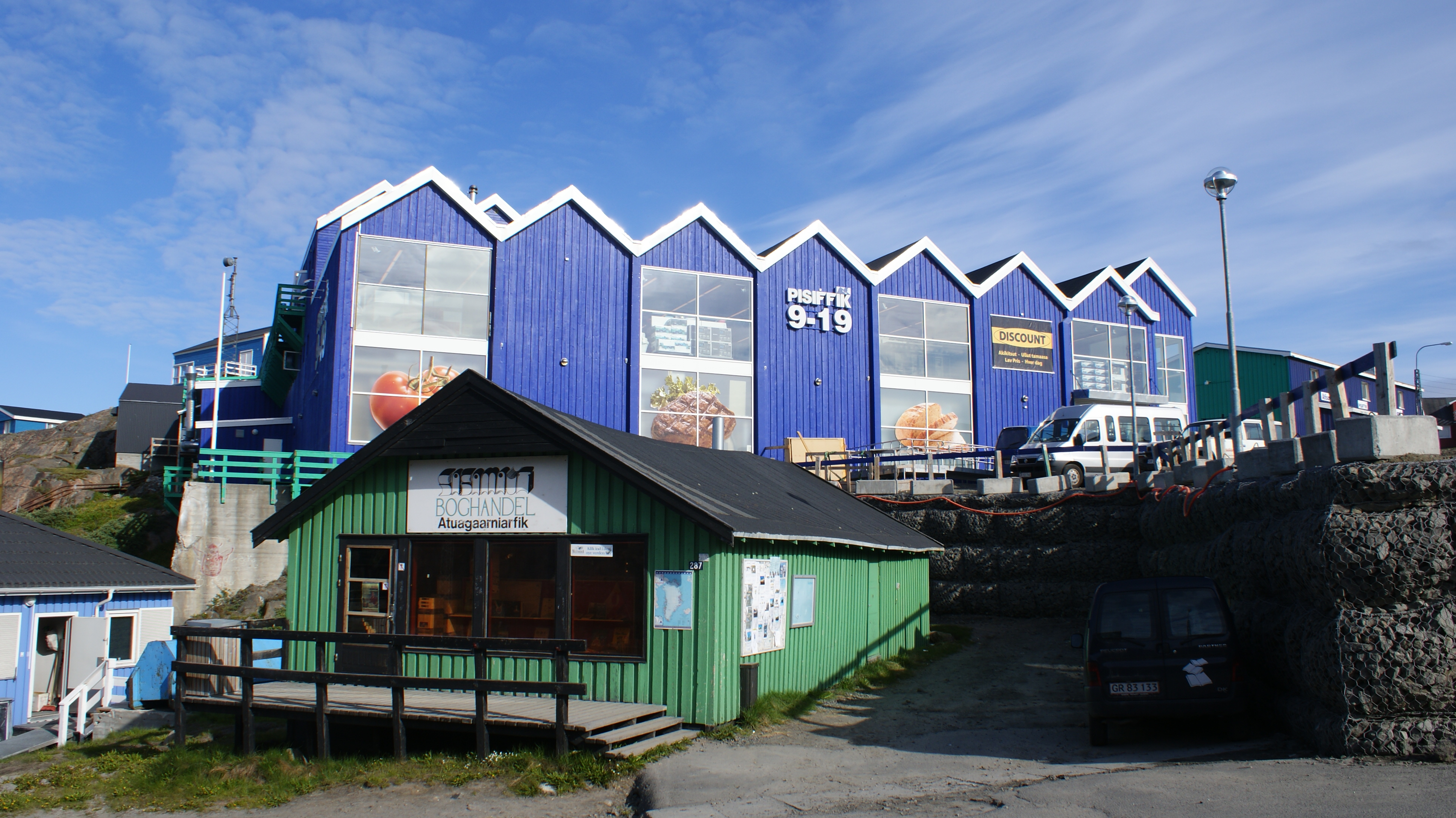 Pisiffik supermarket in Sisimiut, Greenland. Bookstore (Atuagaarniarfik) in a small green building below.